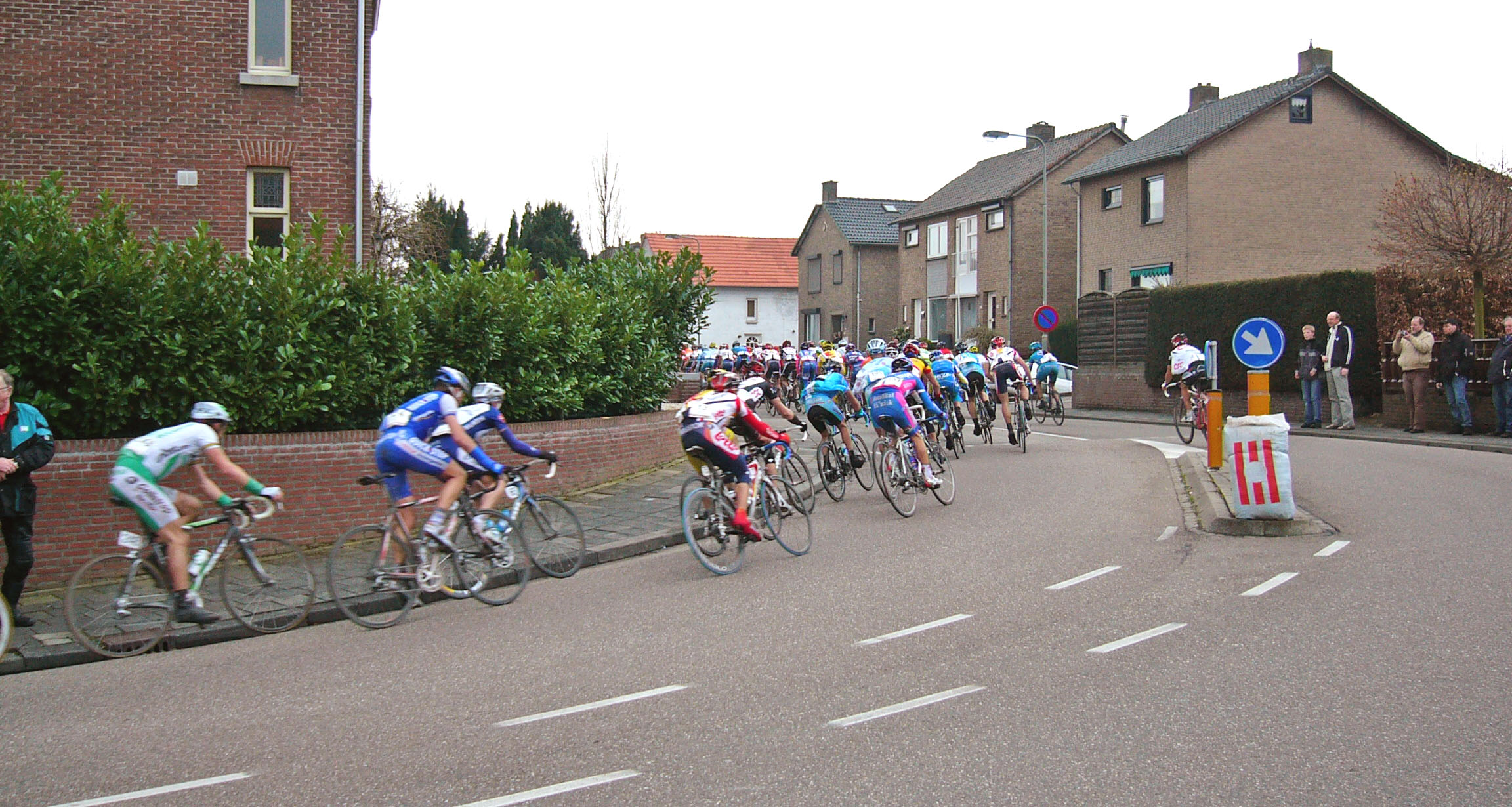 Amstel Gold Race 2006 in Berg (Valkenburg aan de Geul).